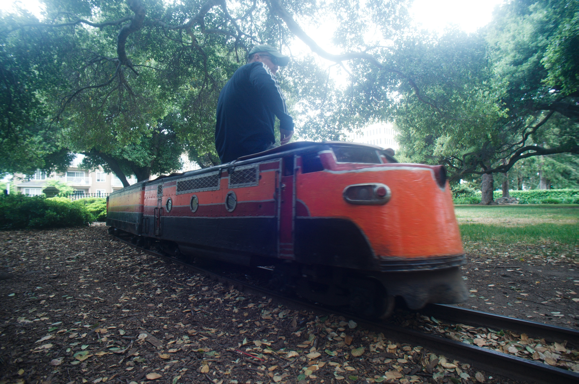 The train is regularly serving all weekends.